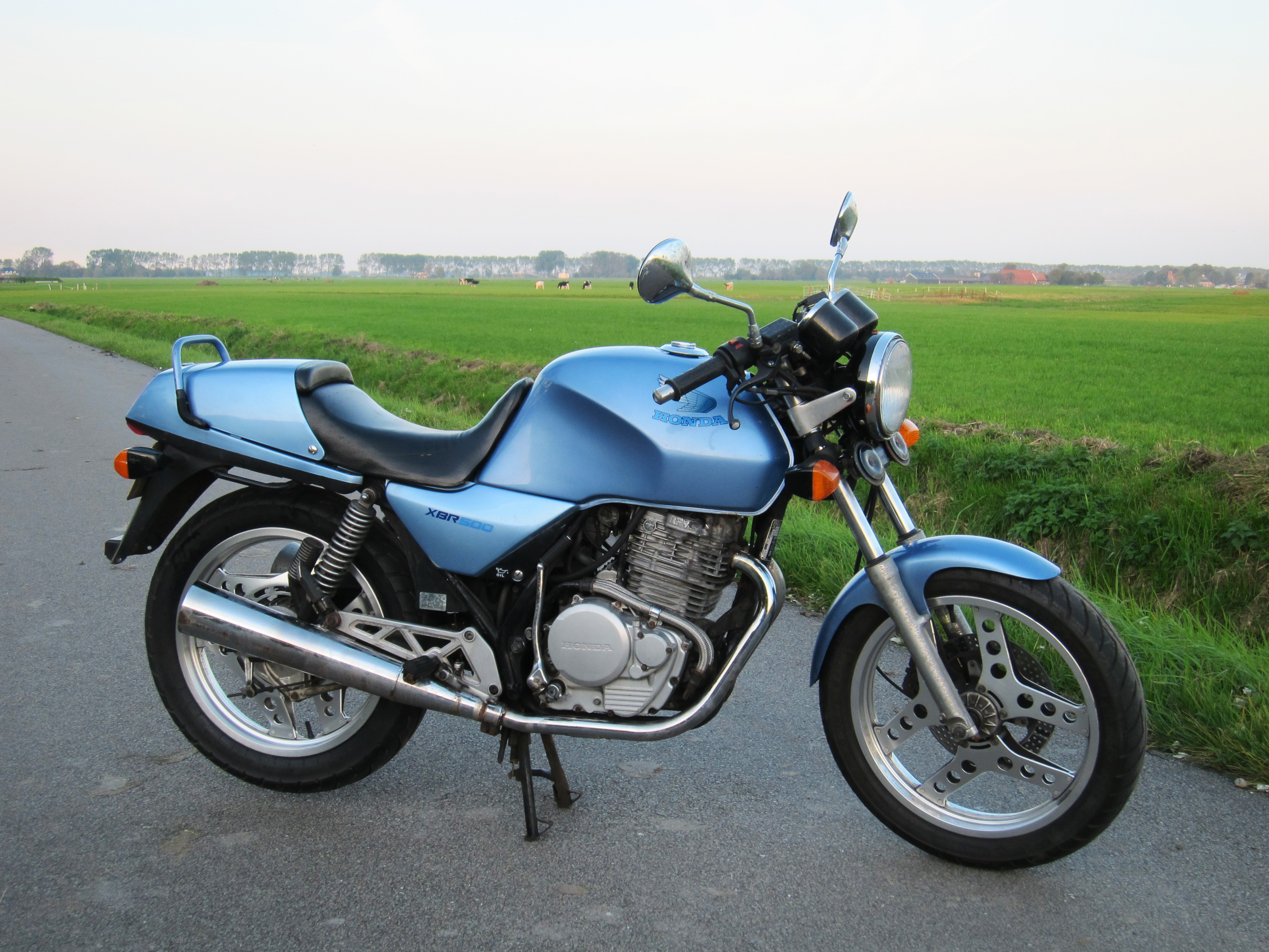 This is a photograph of my 1985 Honda XBR 500. It is in original state with original paint, except for the mirrors which have been replaced with generic mirrors of equivalent style.